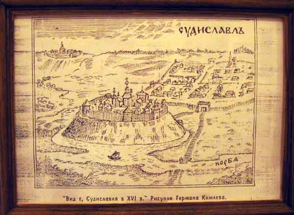 Sudislavl 16 century